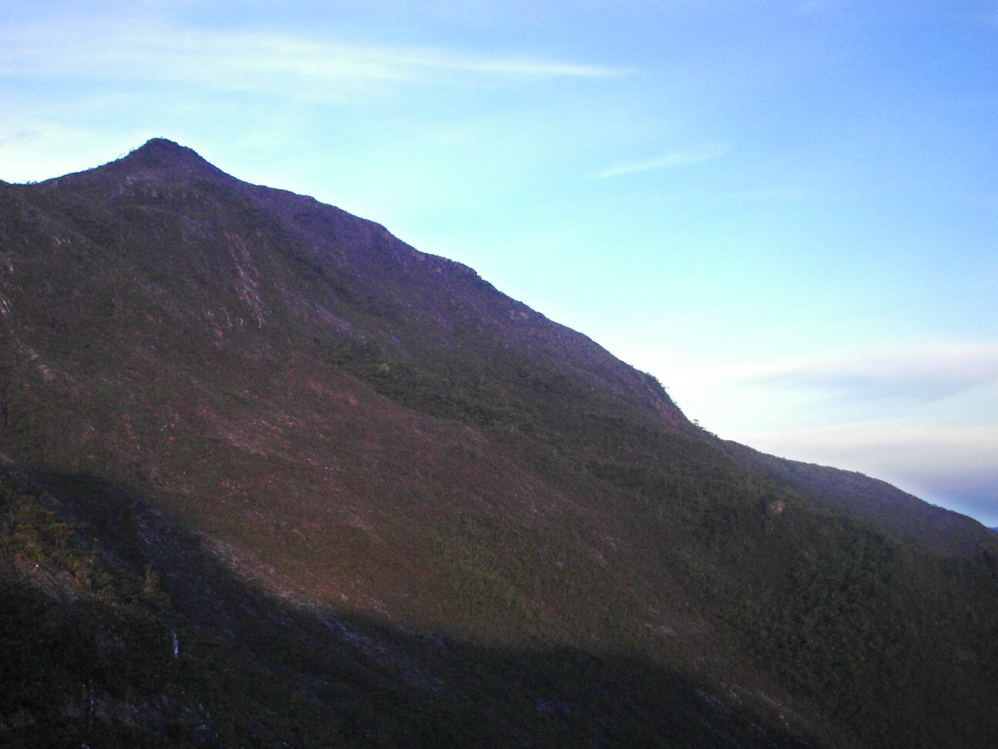 Unnamed Lesser Peak, Gunung Tahan. Snapped from Kem Botak.